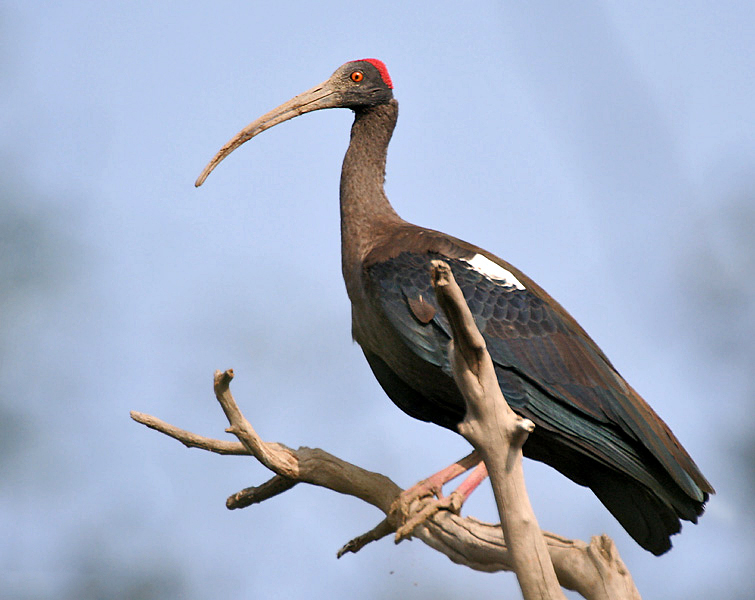 Black Ibis Pseudibis papillosa at Hodal in Faridabad District of Haryana, India.